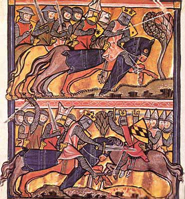 Der Stricker - Karl St. Gallen, Stiftsbibliothek, Ms. Vad. 302 II, fol. 35v, 13th century manuscript (ca. 1300)